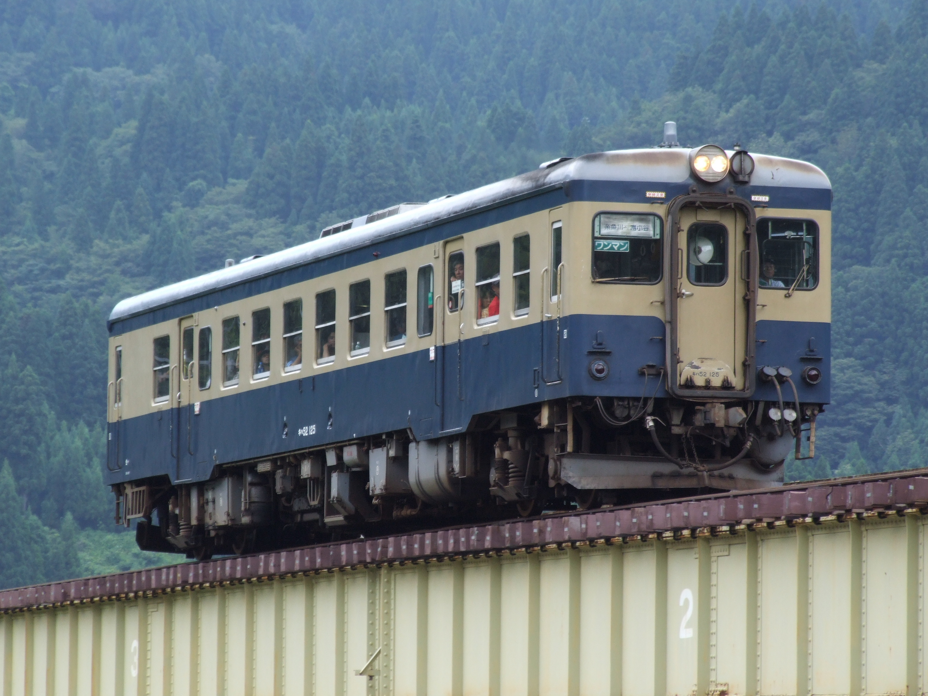 JR West KiHa 52 DMU car KiHa 52 125 in JNR two-tone blue/beige livery approaching Hiraiwa Station on the Oito Line